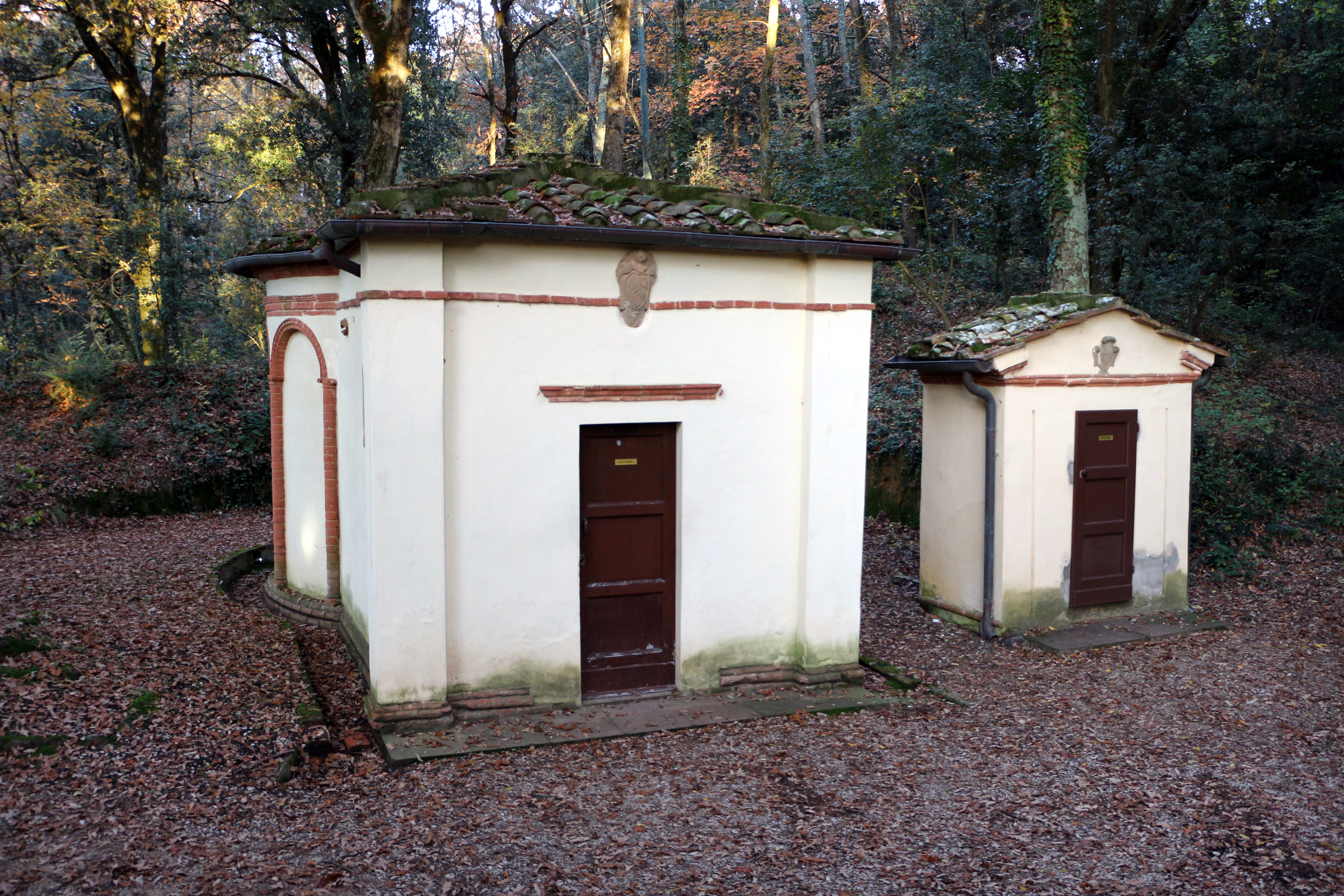 San Vivaldo Sacro Monte